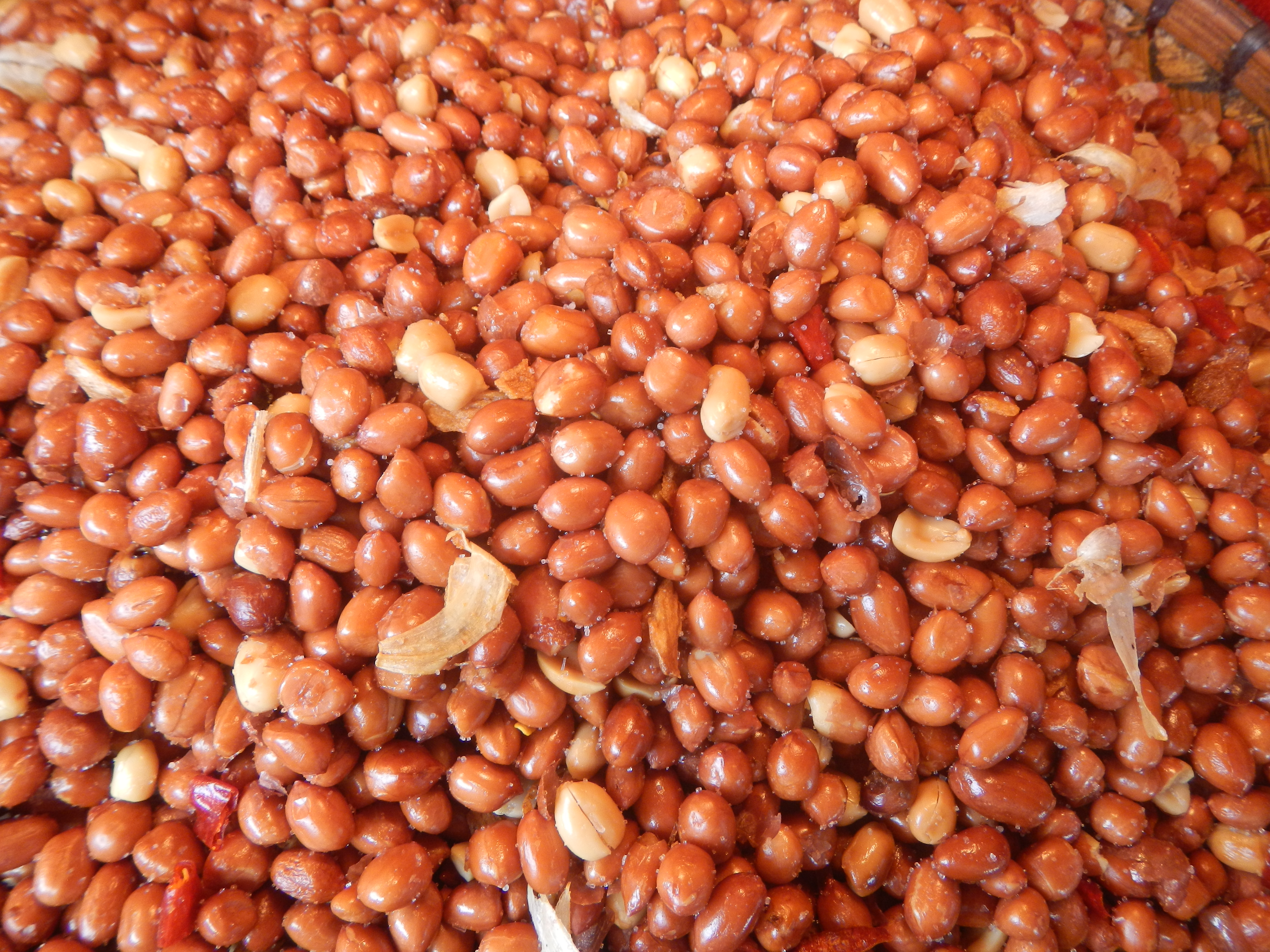 Peanuts snack of the Philippines in Taft Avenue, Pasay City